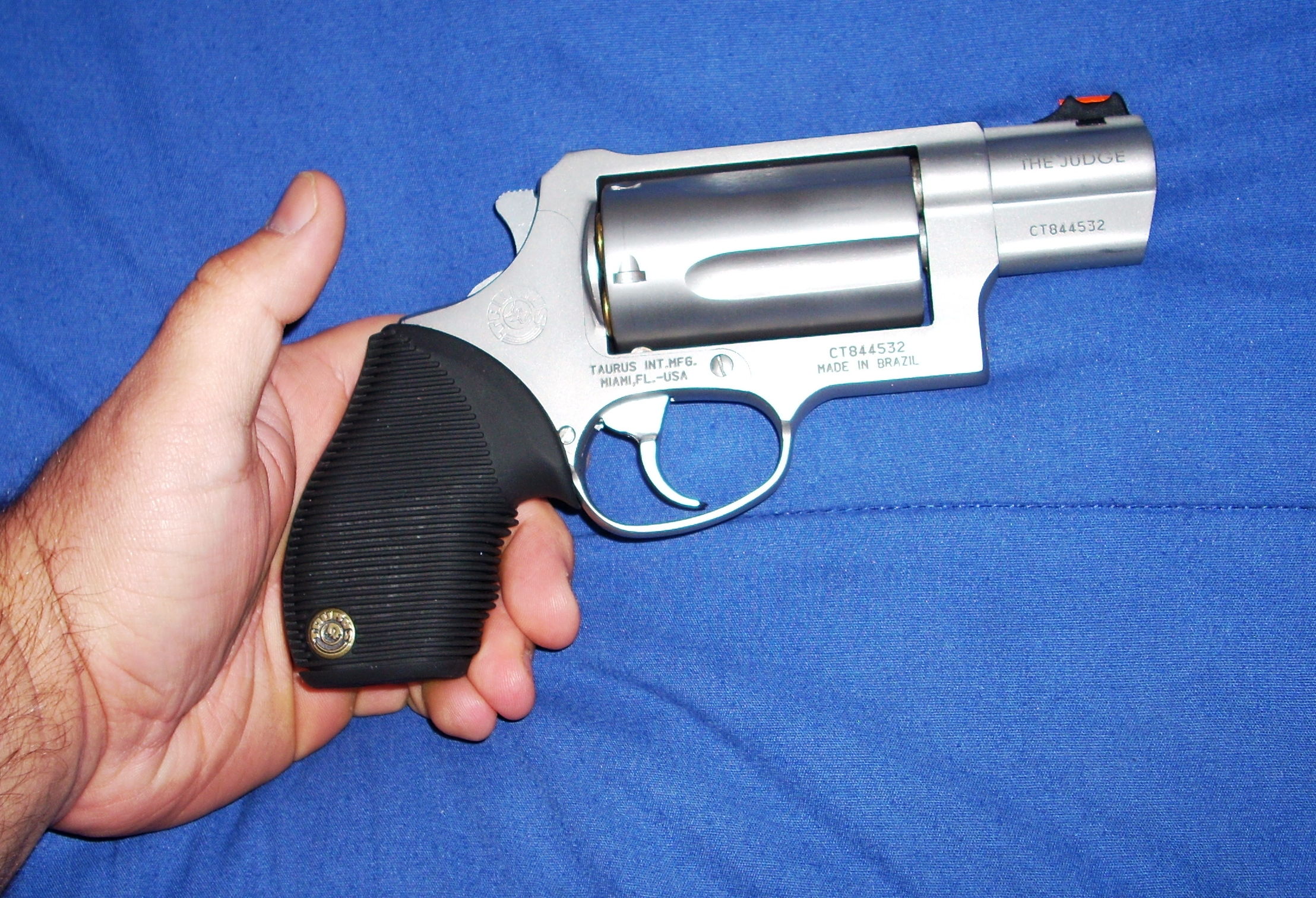 Taurus Public Defender revolver, chambered to fire both .45 Long Colt and .410 Bore shot shells.